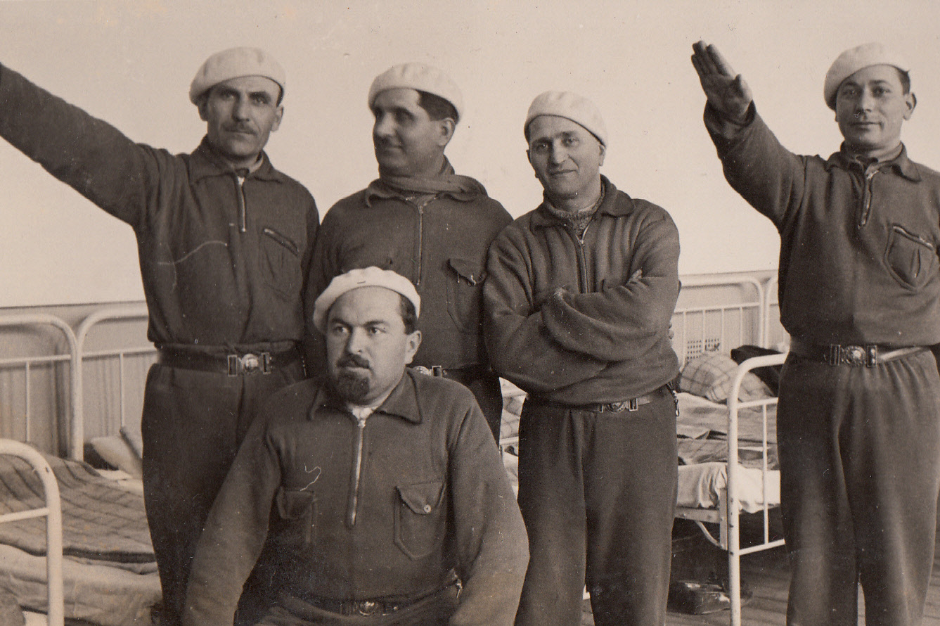 Romanian schoolteachers after a paramilitary training session, two of them giving the fascist "Roman salute". Paramilitary training by and for the teaching corps was instituted under the corporatist regime of King Carol II, and lasted into World War II.